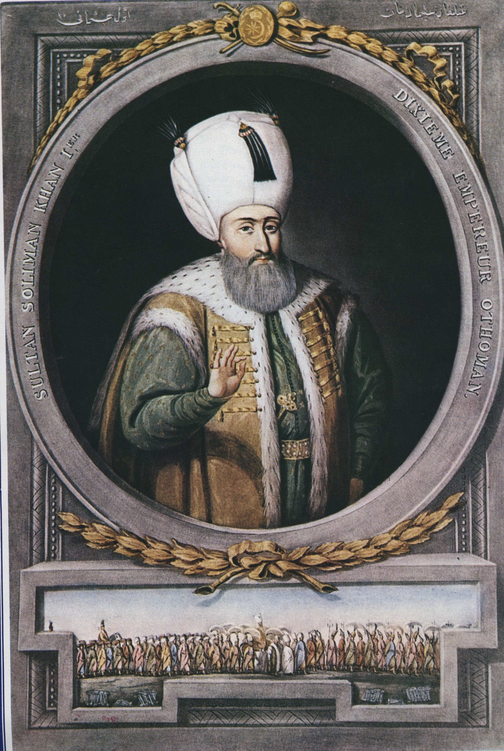 Suleiman I (1520-1566) The Ottoman Sultan